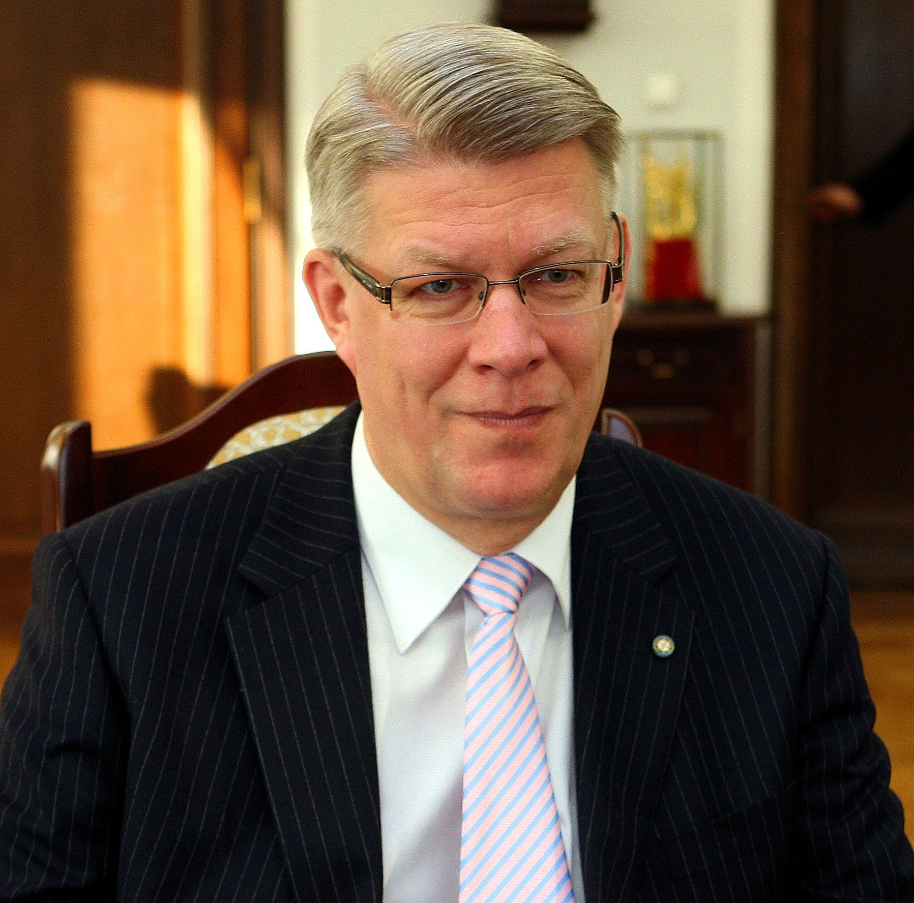 resident of the Republic of Latvia Valdis Zatlers in the Polish Senate